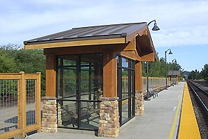 The platform at Icicle Station, an Amtrak stop in Leavenworth, Washington, that opened in 2009.